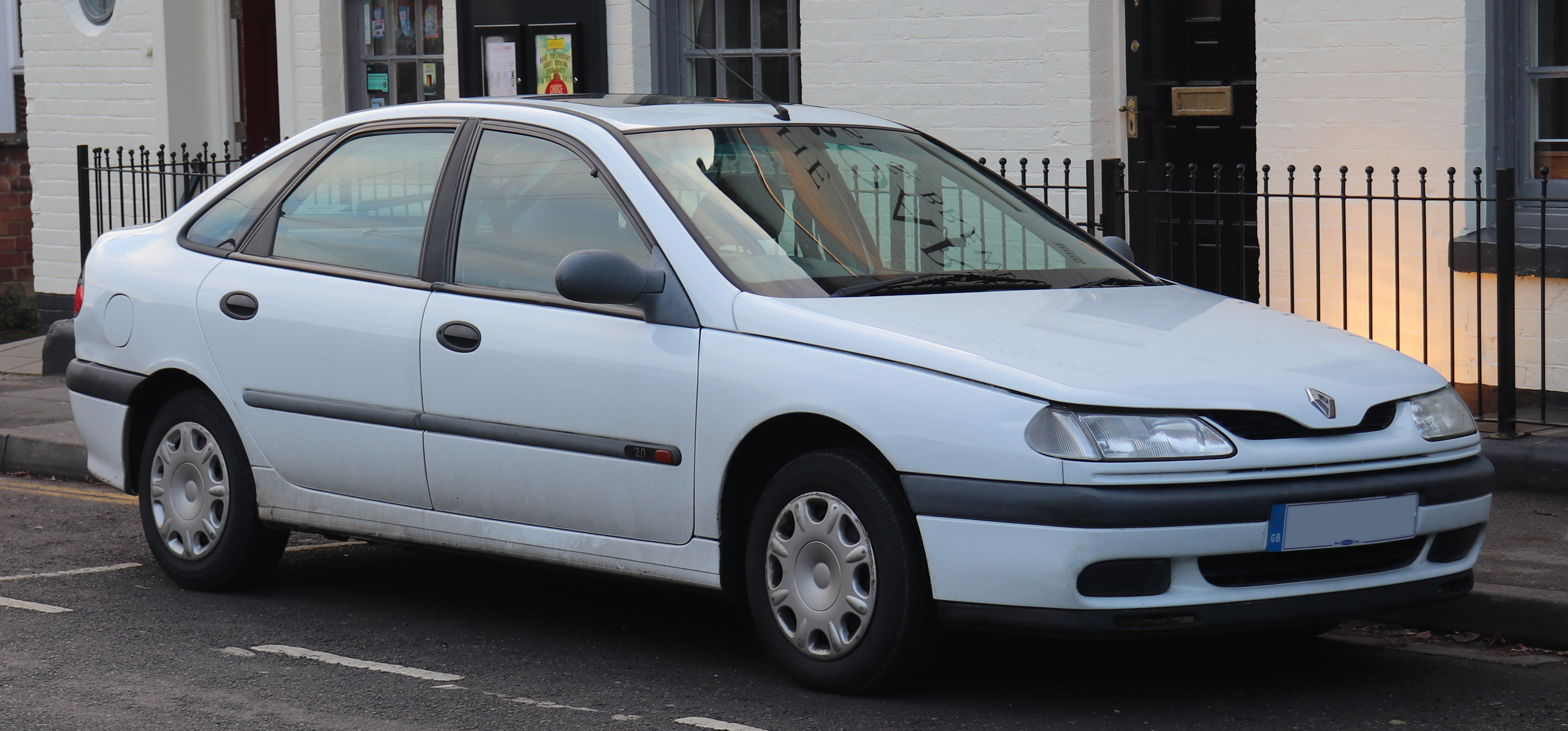 1997 Renault Laguna RT 2.0 Front Taken in Warwick